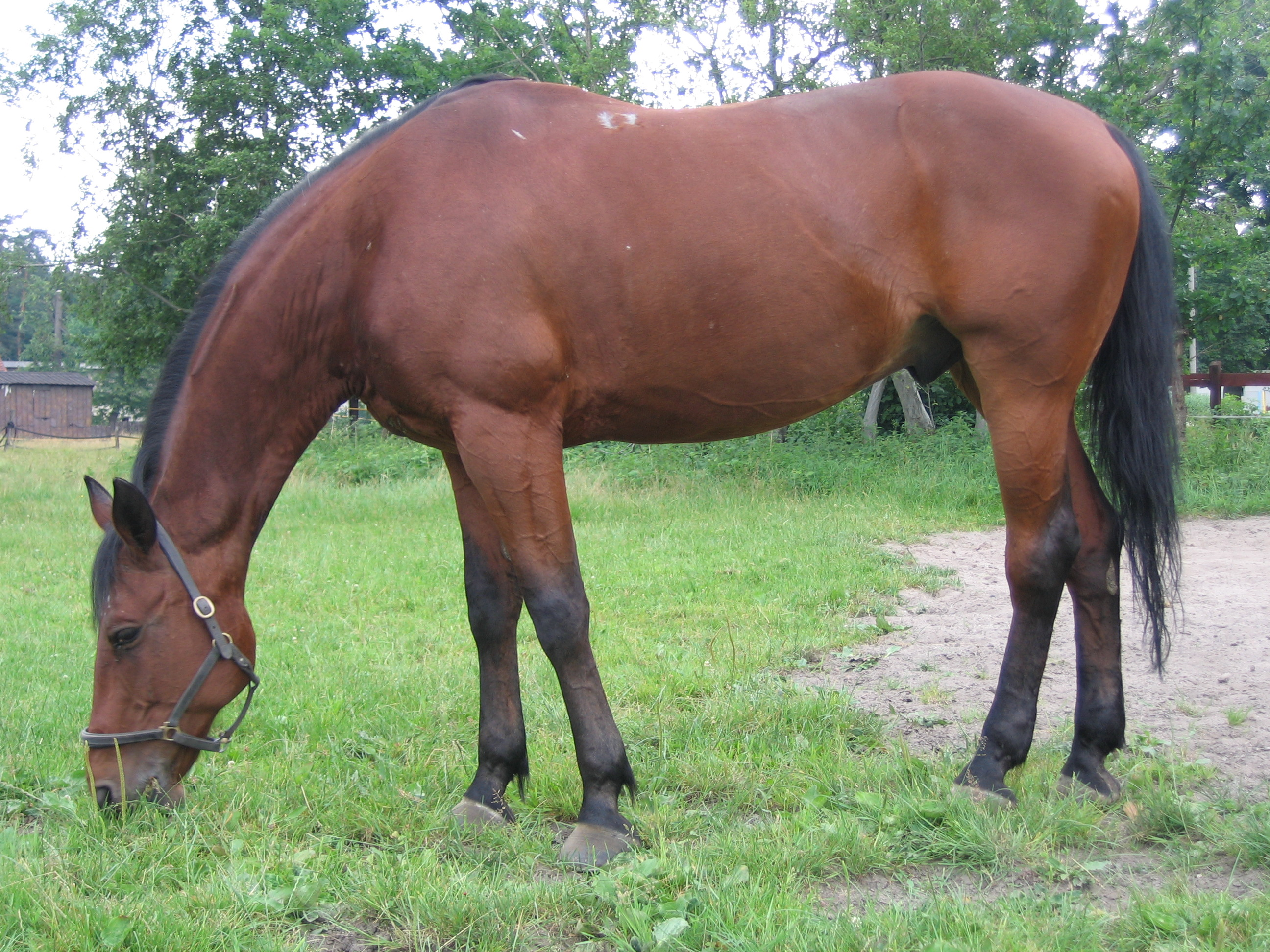 Son of Przedswit XIII-4